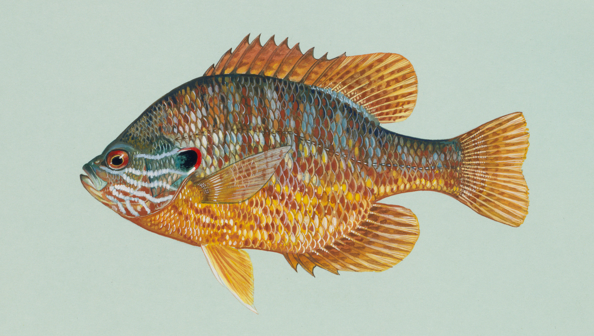 Pumpkinseed (Lepomis gibbosus)